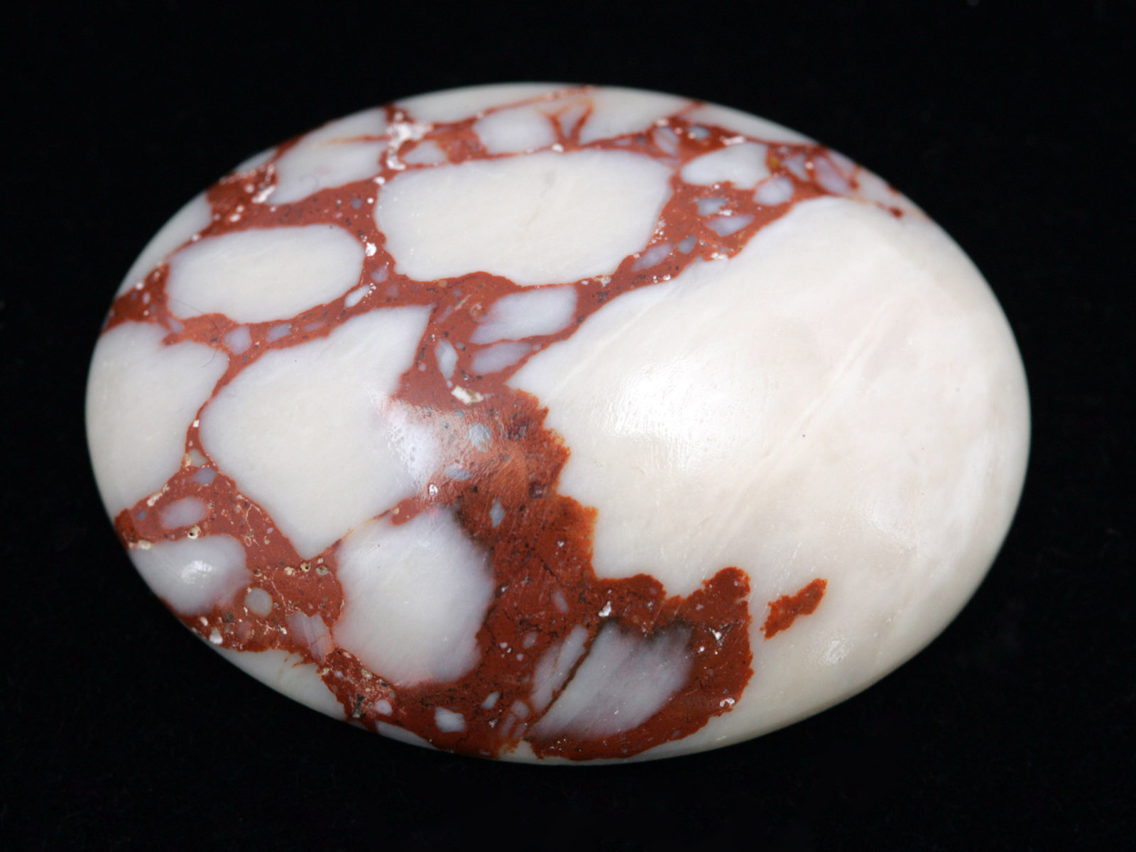 Brecciated jasper cabochon of from Australia. More info about this file and about this specimen at